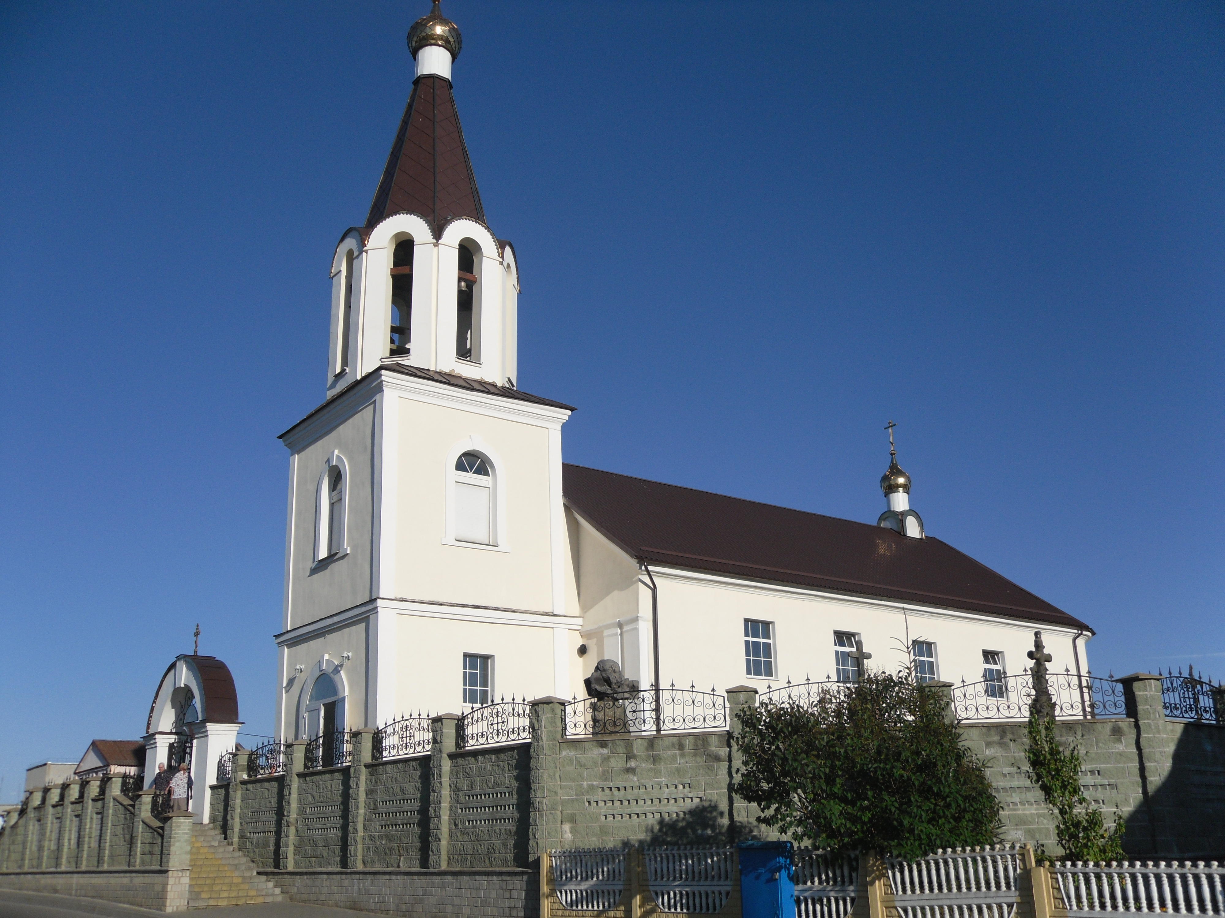 Orthodox church of Zelva, Belarus